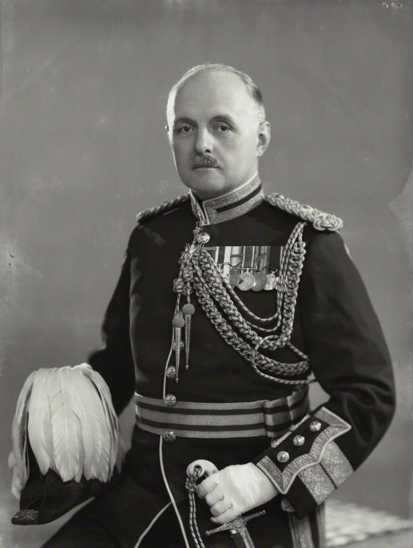 Portrait of Sir Colville Wemyss